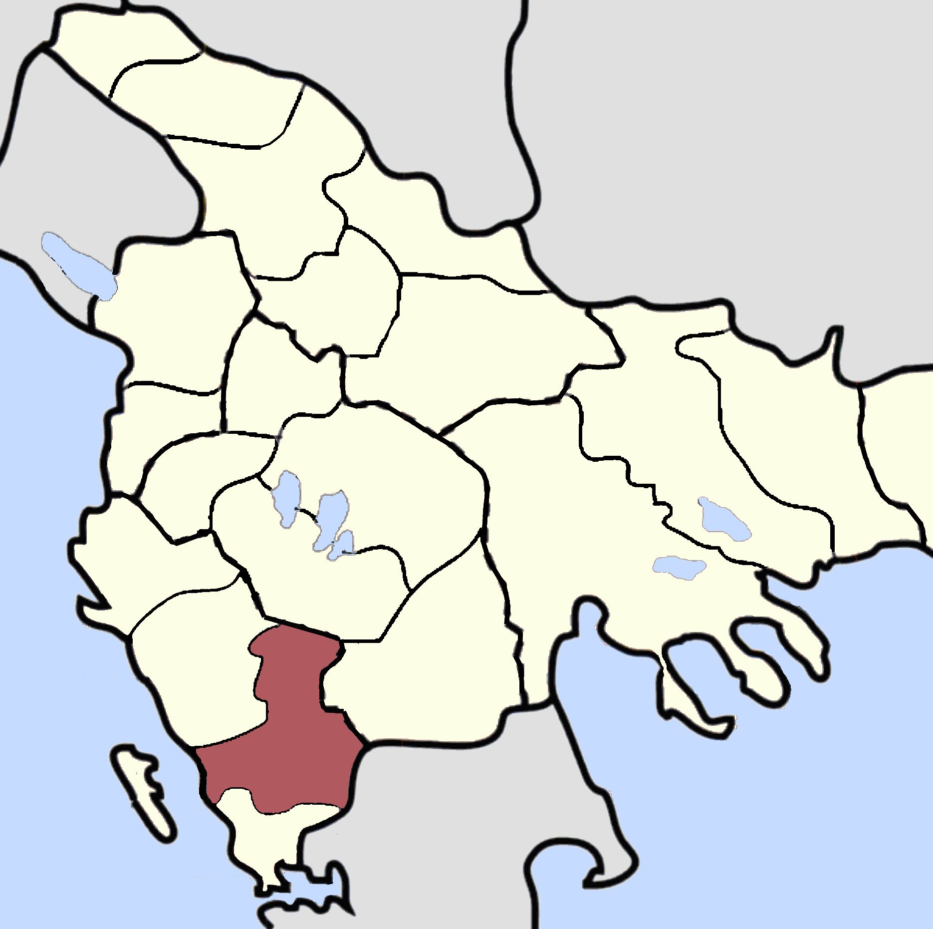 XY Sanjak, Ottoman Empire (late 19th century). Source: The Crescent and the Eagle- Ottoman Rule, Islam and the Albanians, 1874-1913 at Google Books By George Gawrych